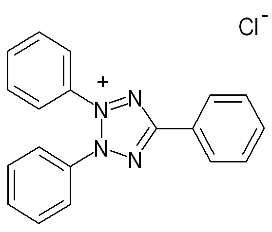 Structure of tetrazolium chloride